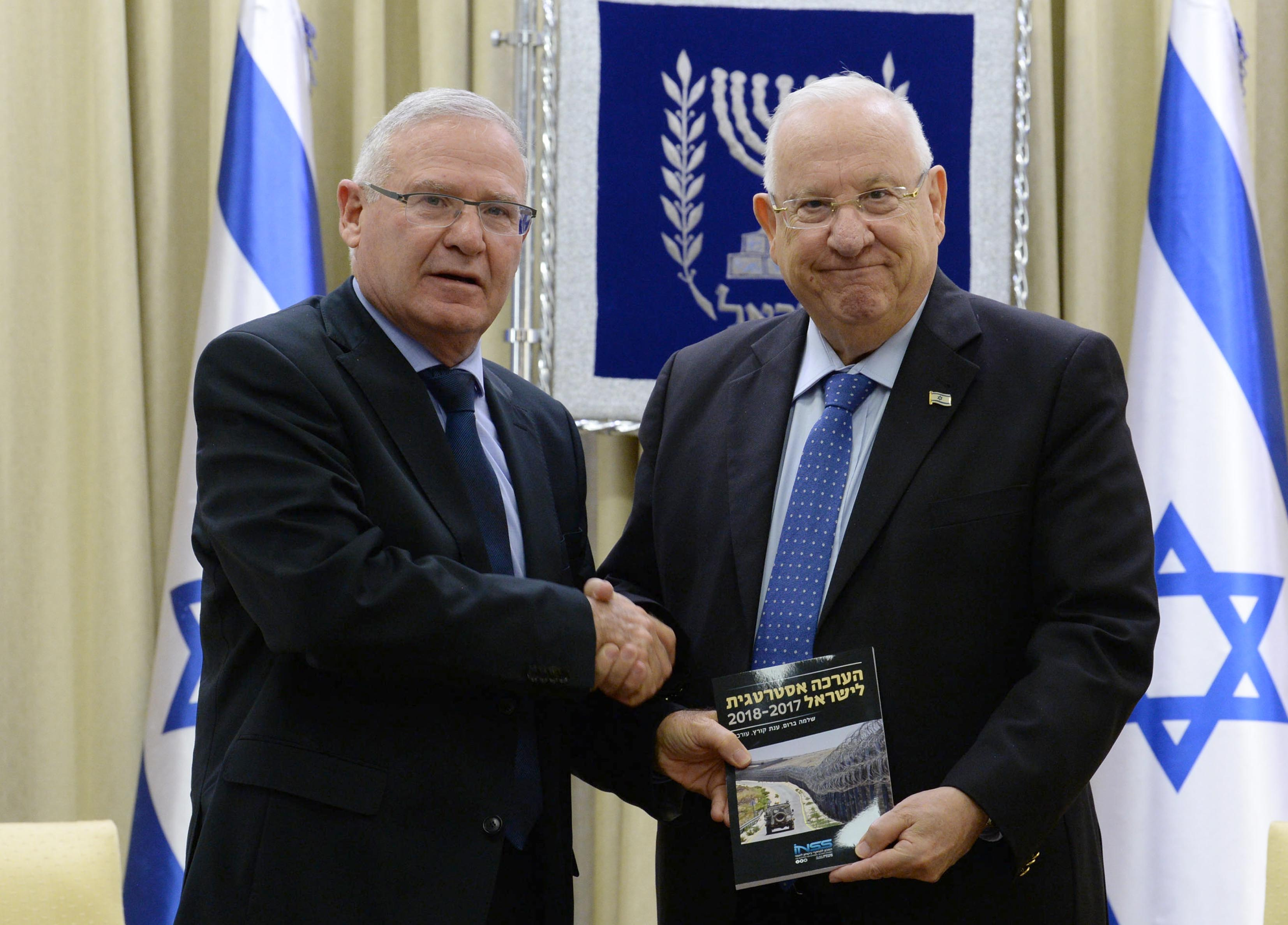 President of Israel, Reuven Rivlin, receives the strategic assessment of Institute for National Security Studies (INSS) for 2018. Monday, January 1, 2018. Photo Credit: Mark Neyman / GPO. Depicted people: Reuven Rivlin and Amos Yadlin